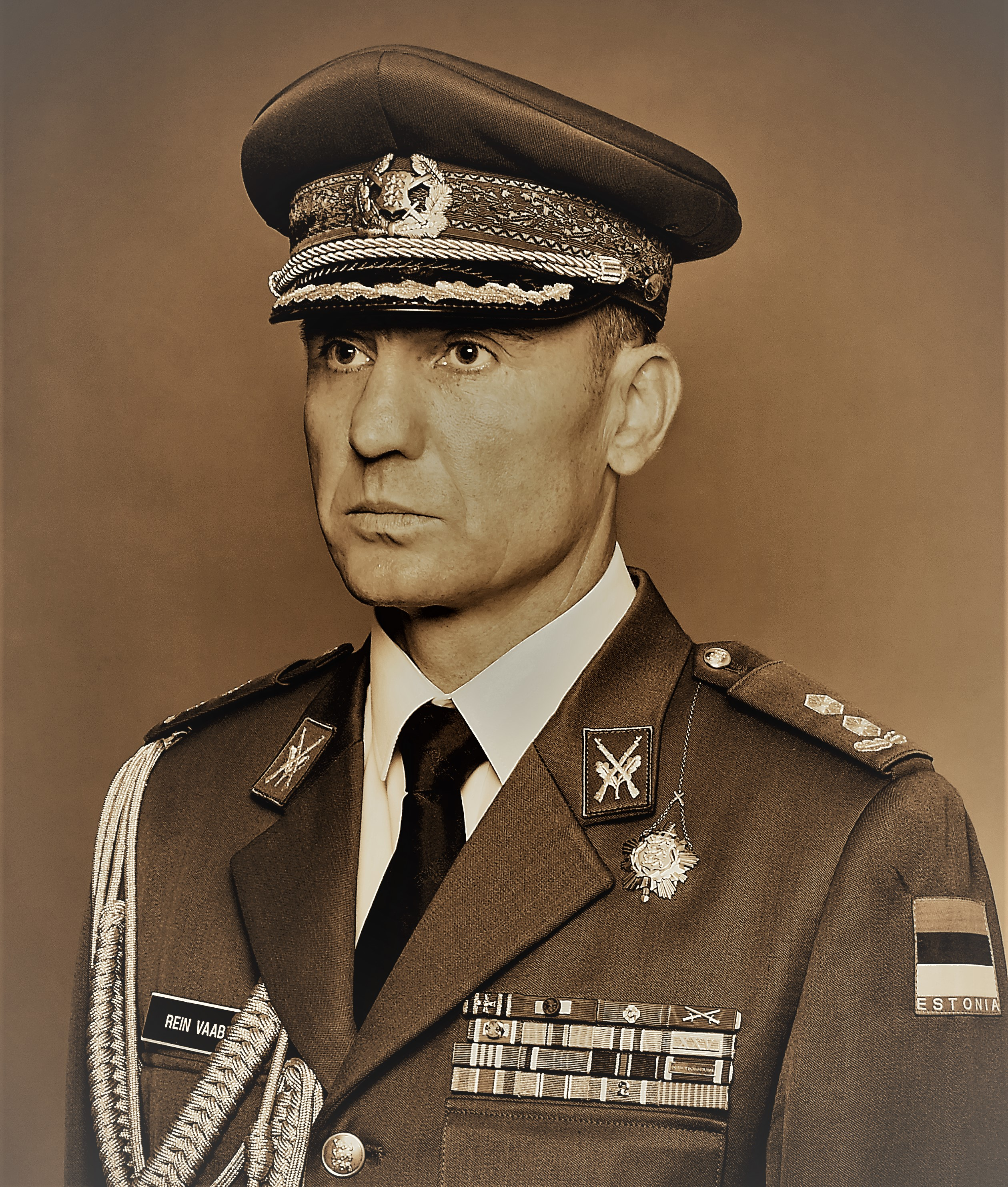 LTC Rein Vaabel, July 2019